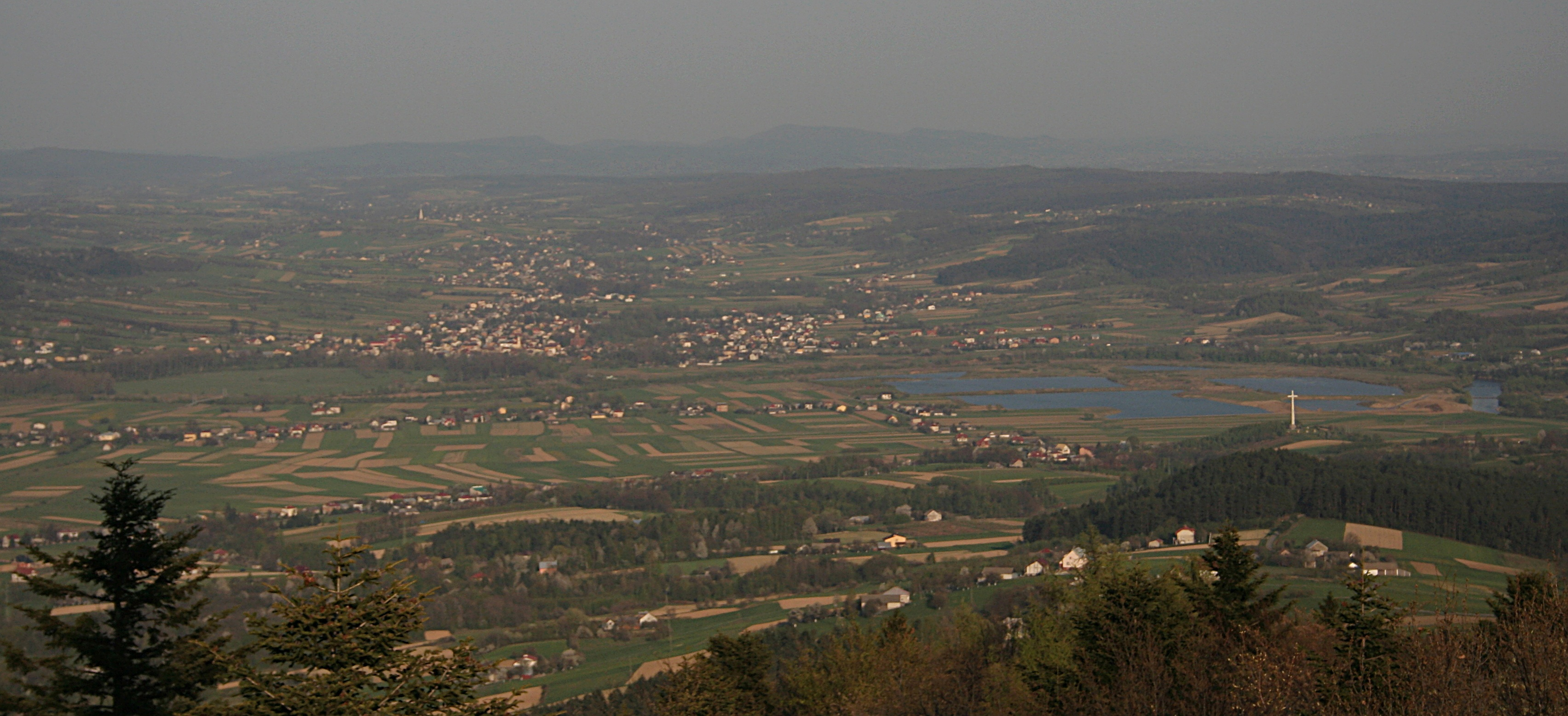 A View of the Liwocz Mountain, Poland.